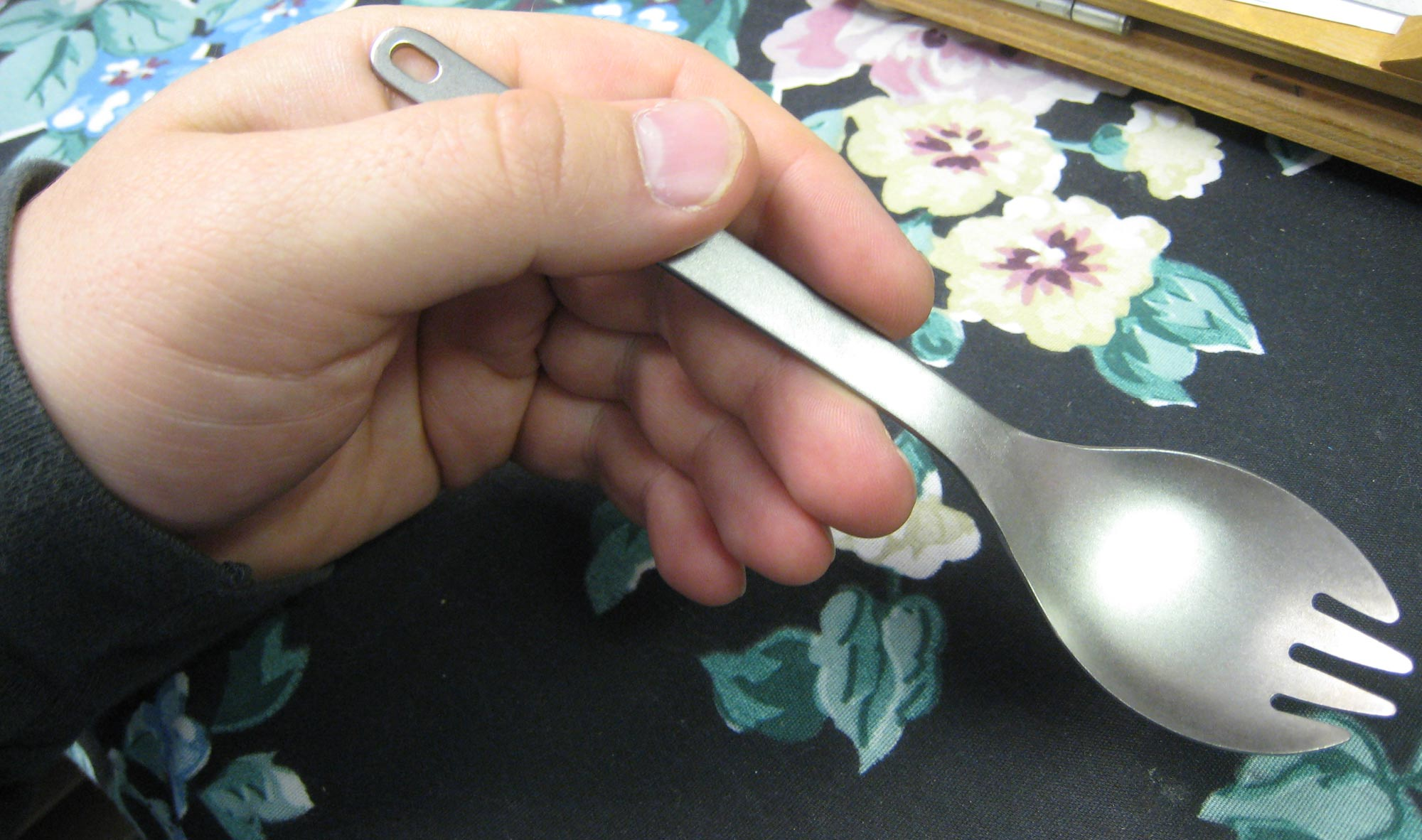 photograph of a hand holding a titanium spork